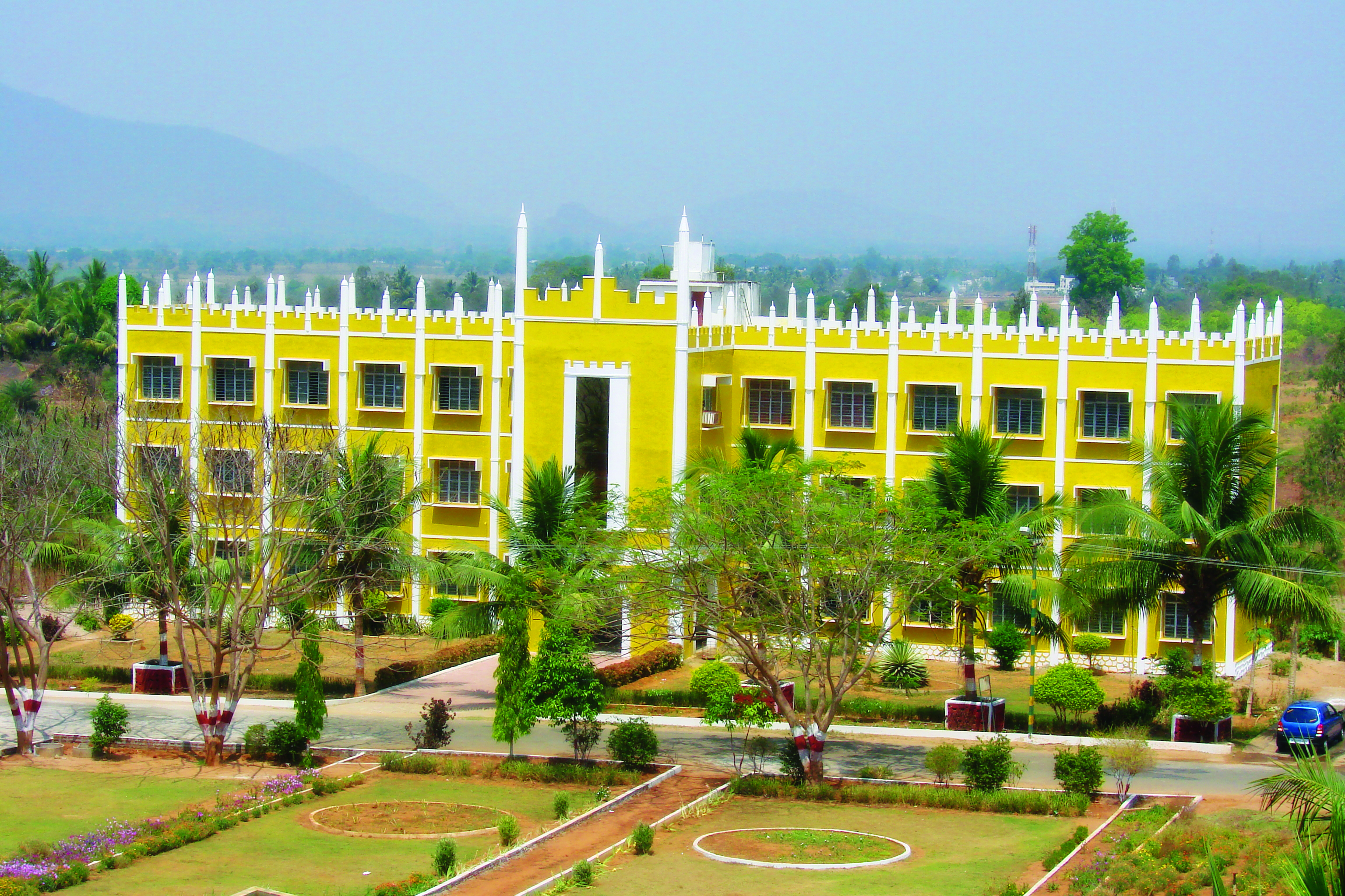 Department of Biotechnological Sc.